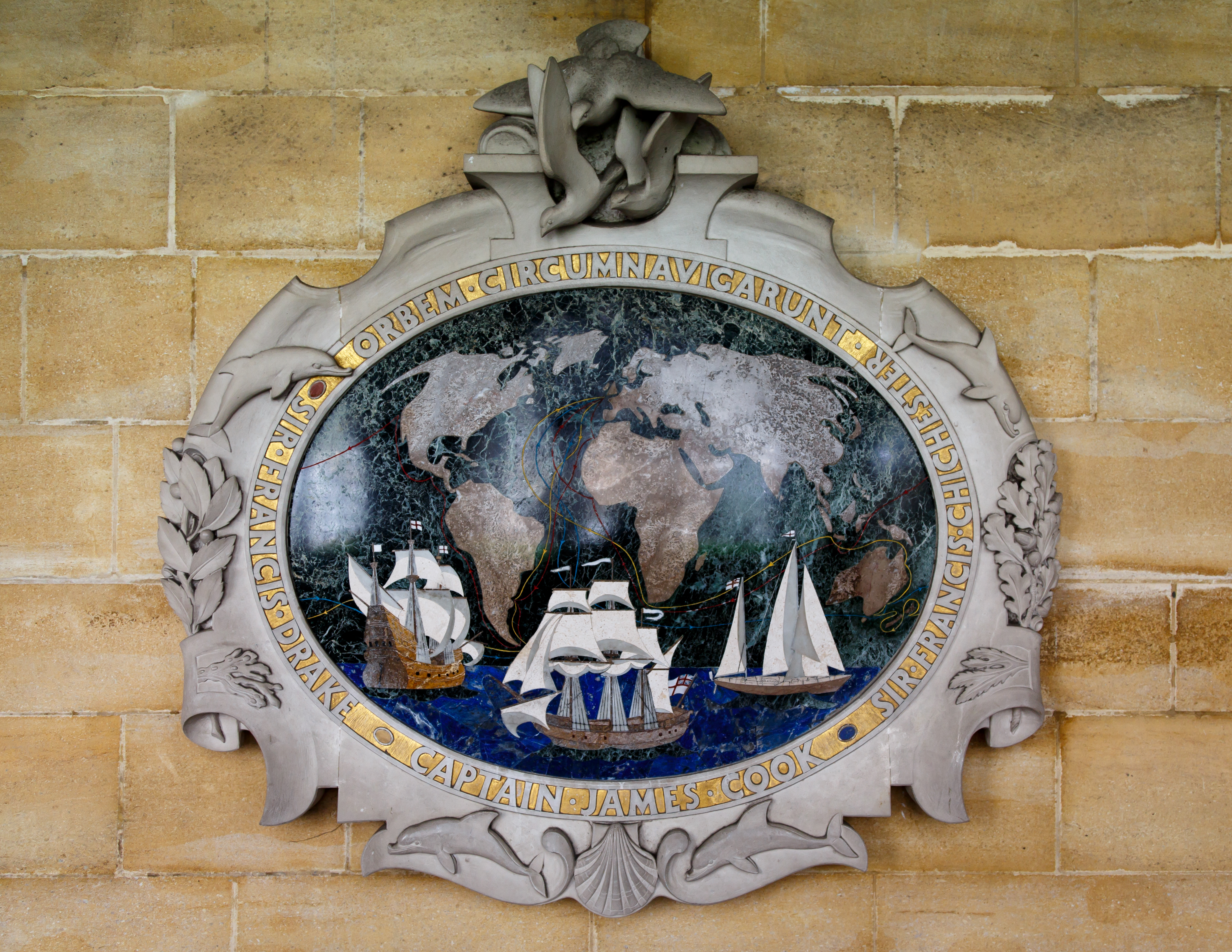 London, UK: Interior of Westminster Abbey; Memorial Plaque "Orbem Circumnavigarunt", commemorating Sir Francis Drake, Captain James Cook, Sir Francis Chichester